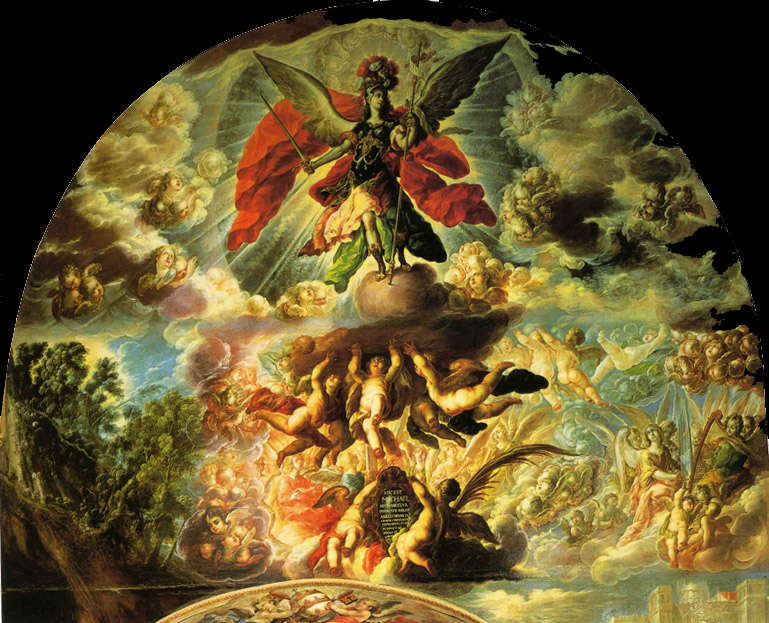 Title: Apparition of Saint Michael. Oil on canvas 929 x 765 cm. Sacristy of the Metropolitan Cathedral, Mexico city.